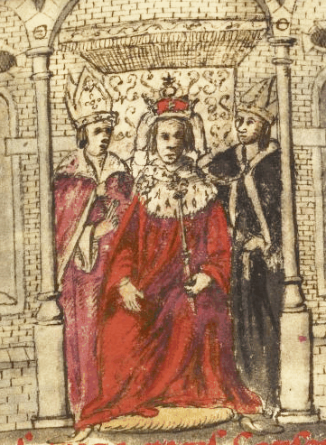 Depiction of the coronation of Henry I, king of England